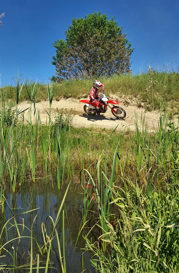 Motocross in Schlatt, Switzerland